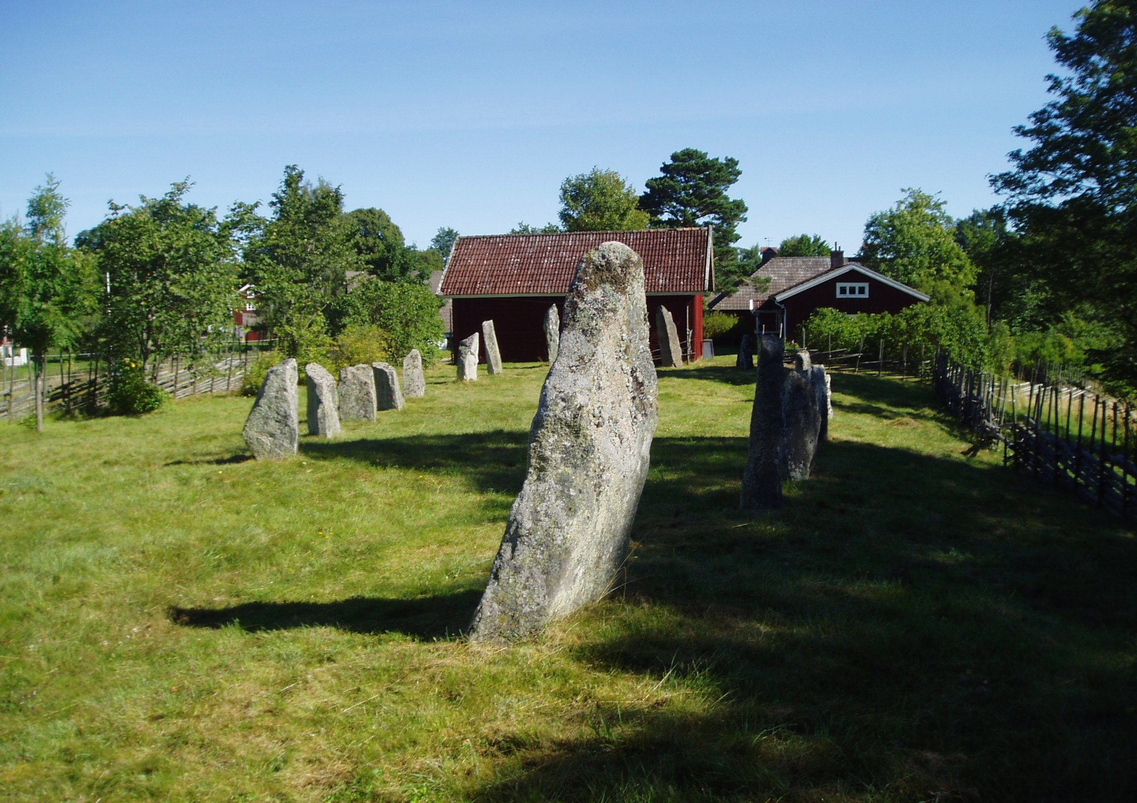 Stone ship Böckersboda, Västergötland, Sweden